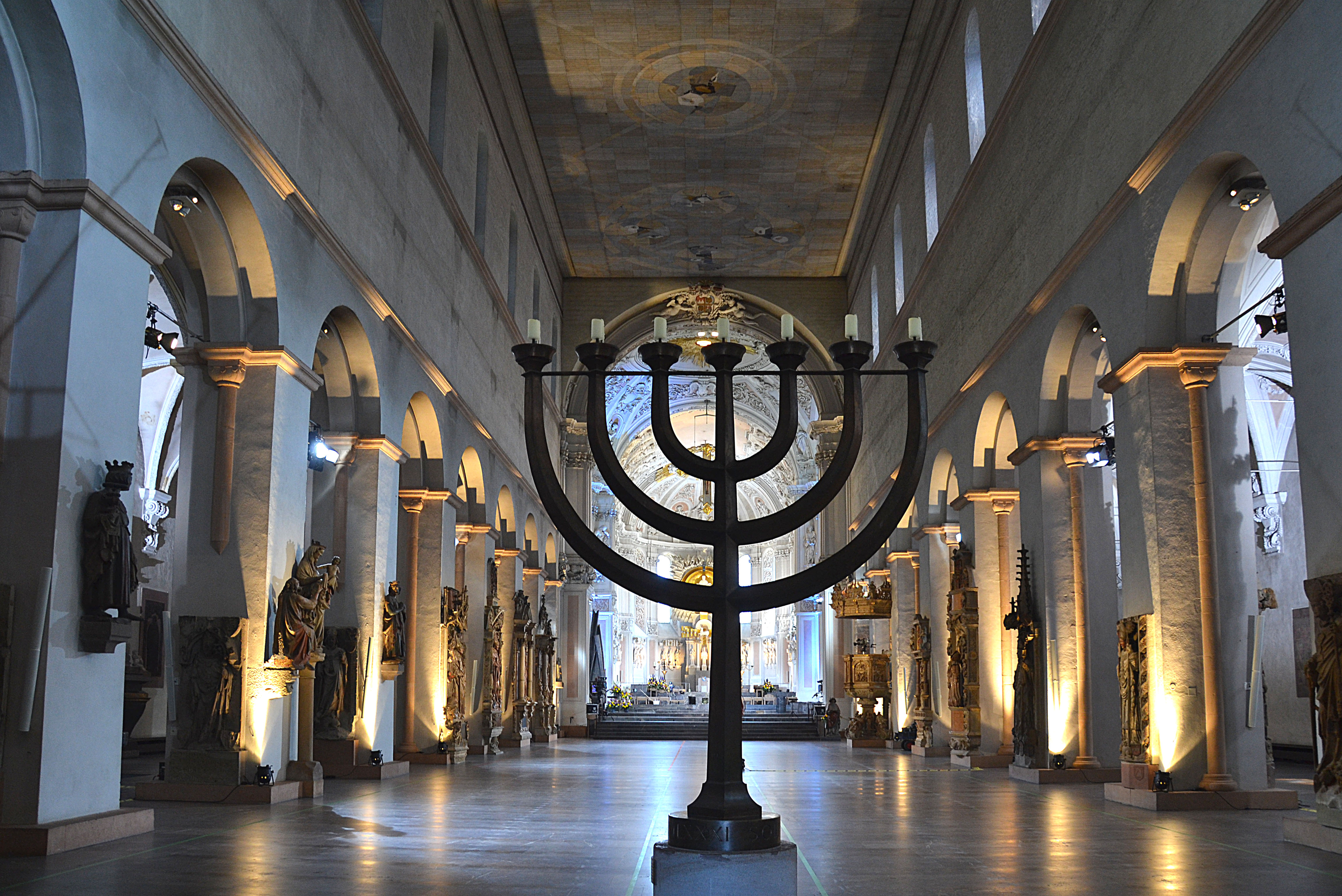 Würzburg Dom right before closed for renovation summer 2011, no pews